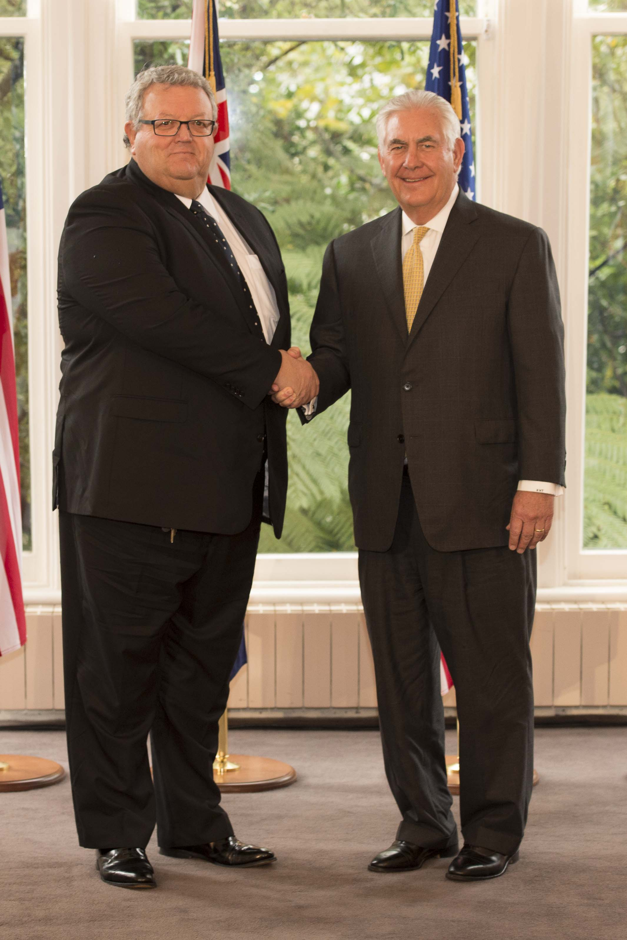 U.S. Secretary of State Rex Tillerson meets with New Zealander Foreign Minister Gerry Brownlee in Wellington, New Zealand, on June 6, 2017. [State Department photo/ Public Domain]